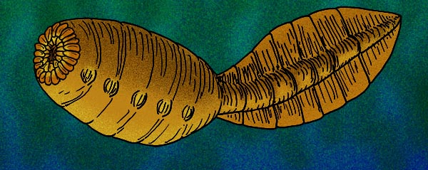 My reconstruction of the Vetulicolian Xidazoon stephanus (C) Stanton F. Fink